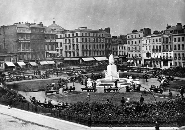 Leicester Square, London c.1880 looking north east. Photographer unknown.